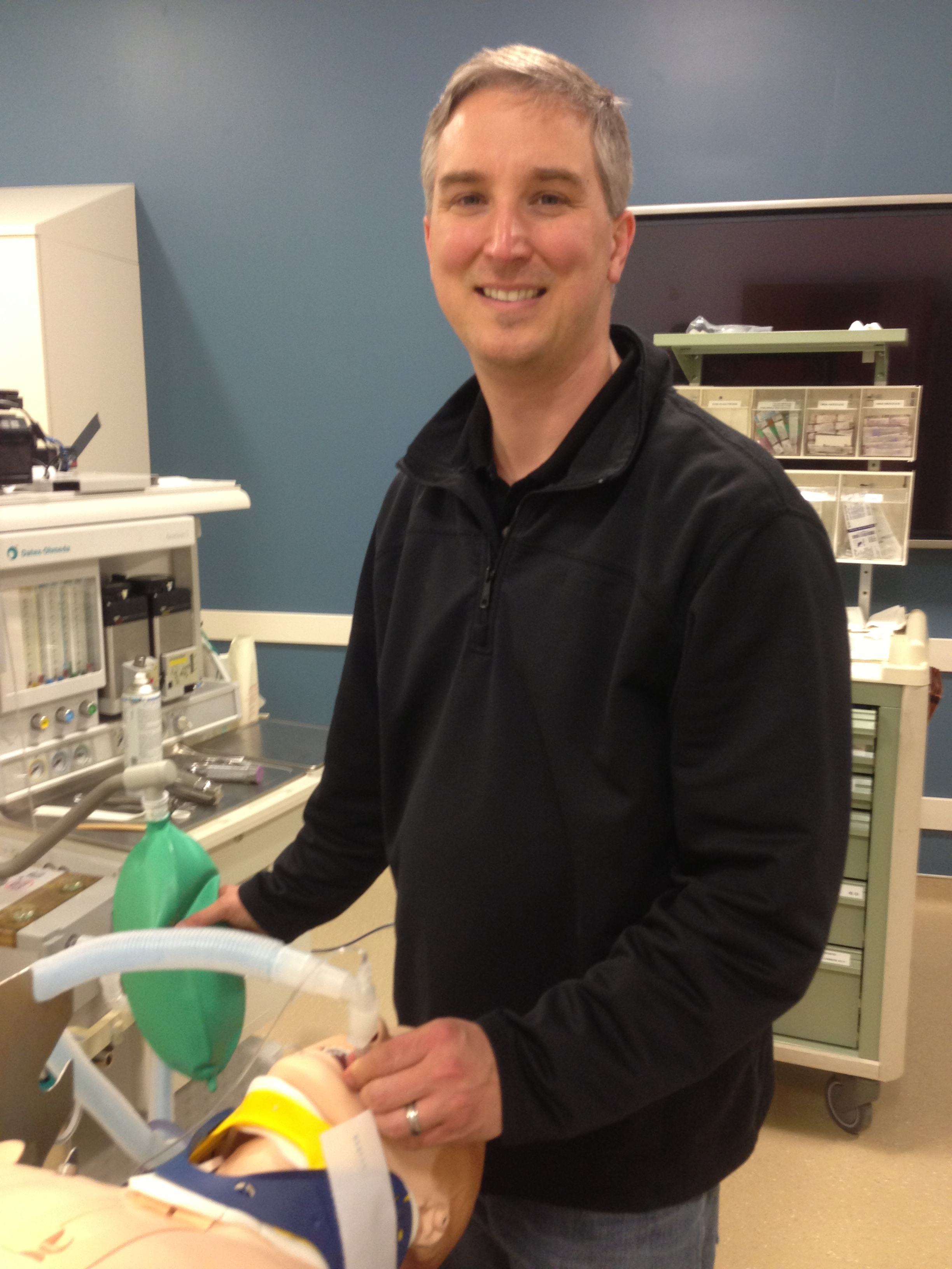 This is a photo of Gene Hobbs at work in 2013